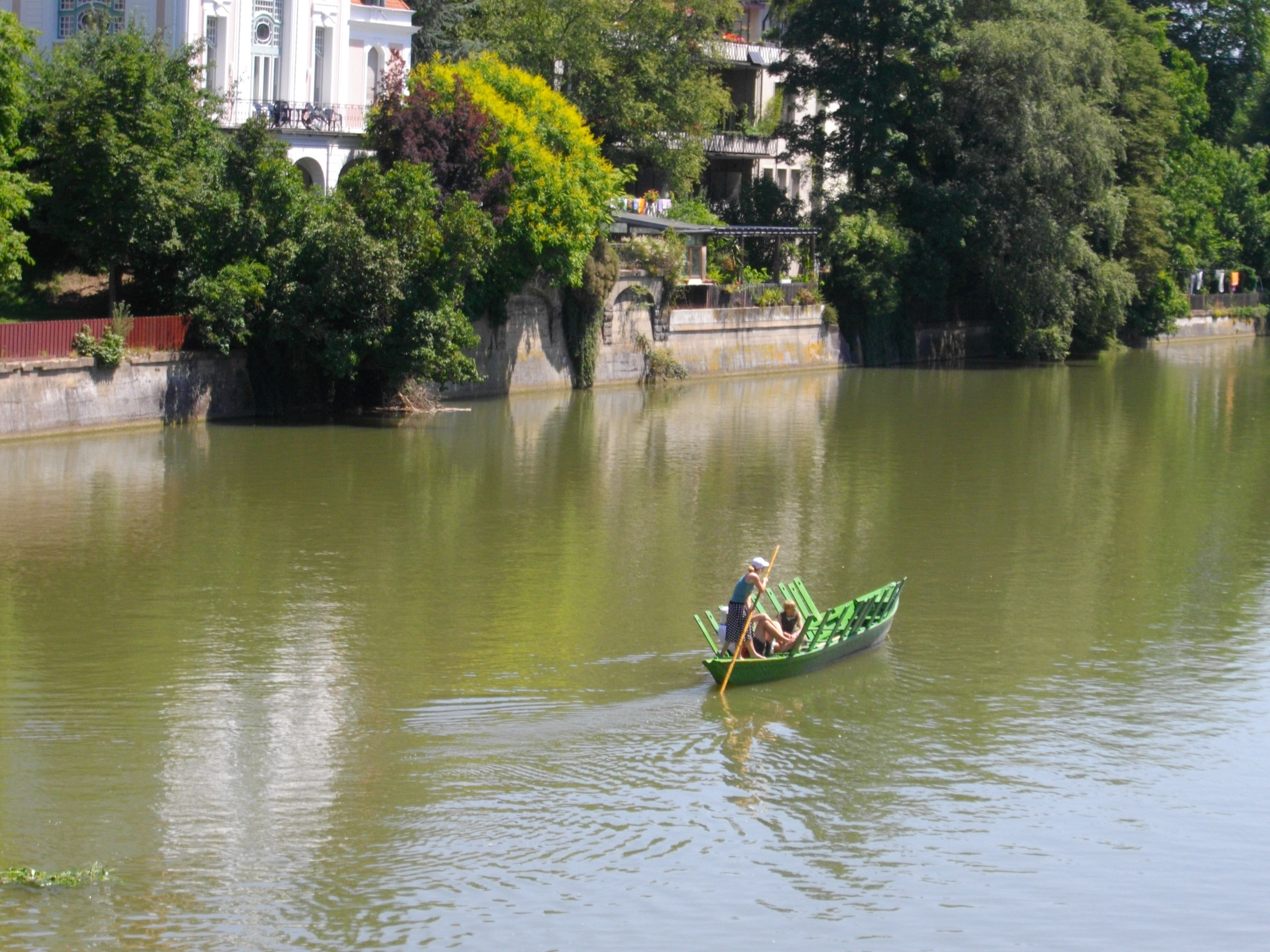 Neckar River in Tubingen